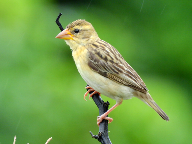 Baya Weaver Ploceus philippinus, female ♀, Mangaon, Maharashtra, India